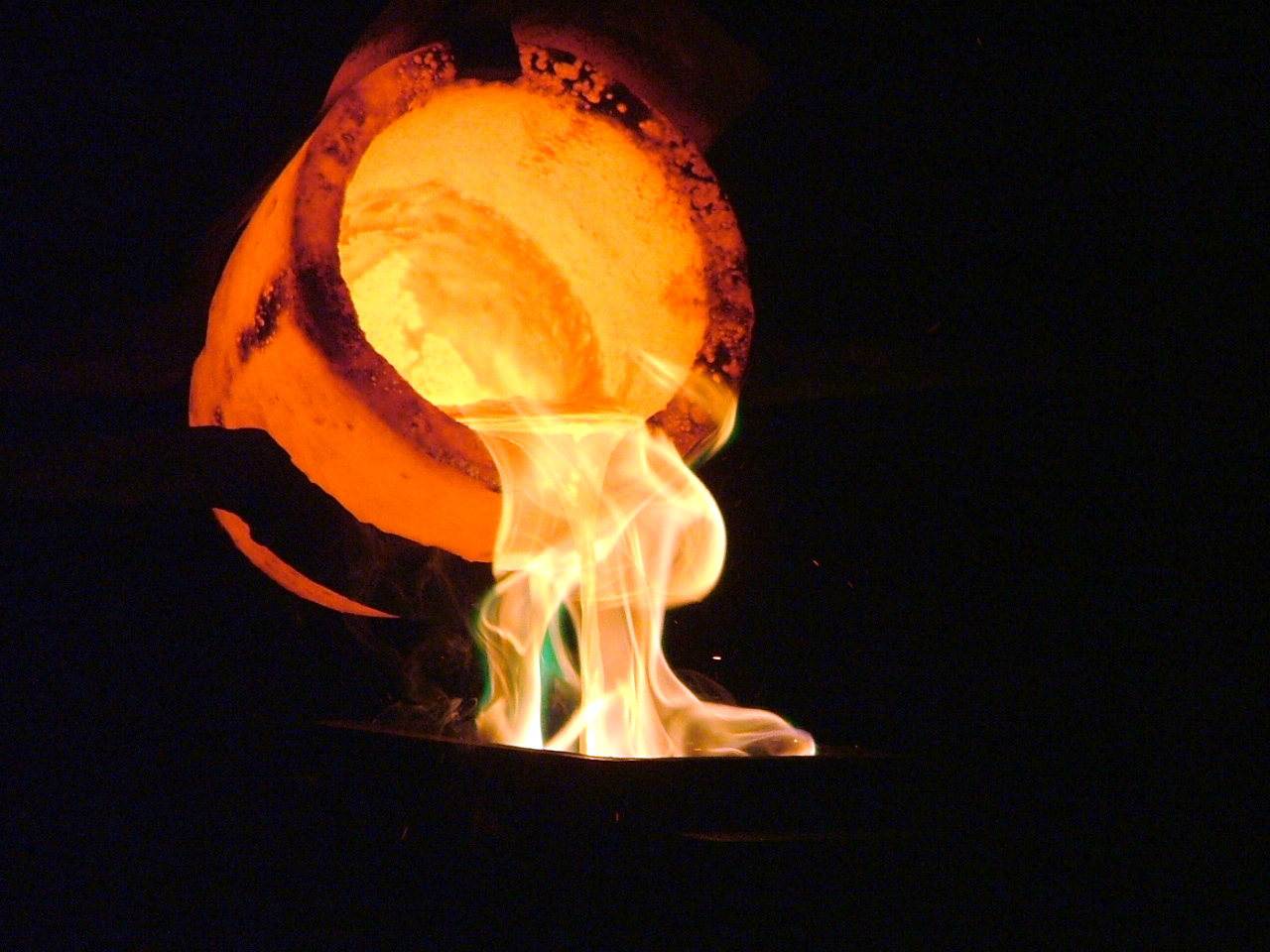 Liquid gold being poured into a cast to make a bullion bar at a Gold Reef City demonstration. Even the crucible glows under the immense heat.